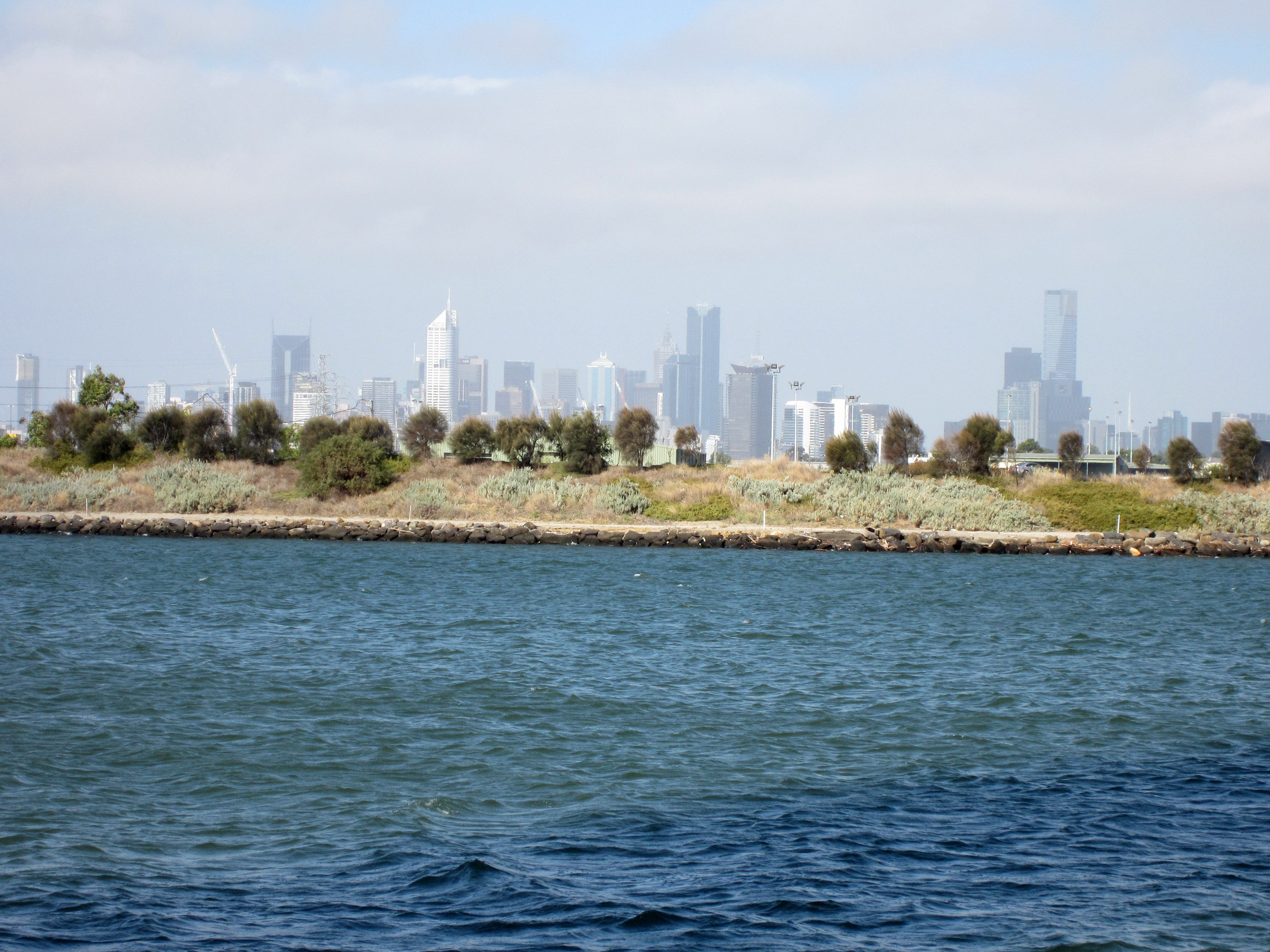 Melbourne City from Newport, Victoria